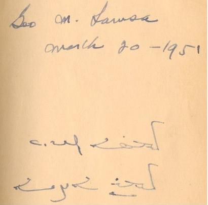 Signature of George Lamsa, taken from a copy of his The New Testament According to the Eastern Text.